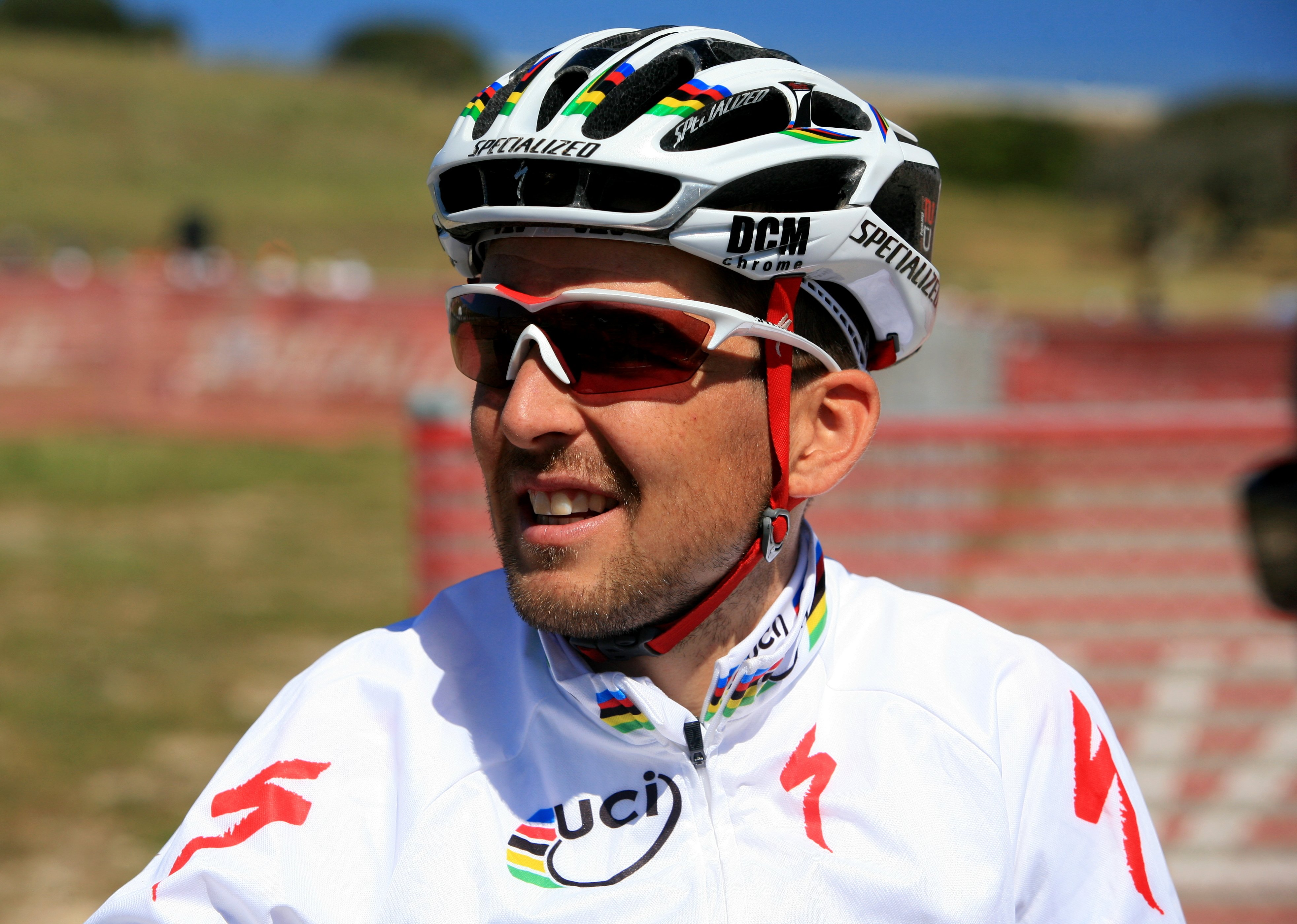 Christoph Sauser in the World Champion's kit during the 2009 Sea Otter Classic in Laguna Seca, CA.